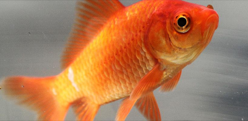 An image of a Common goldfish